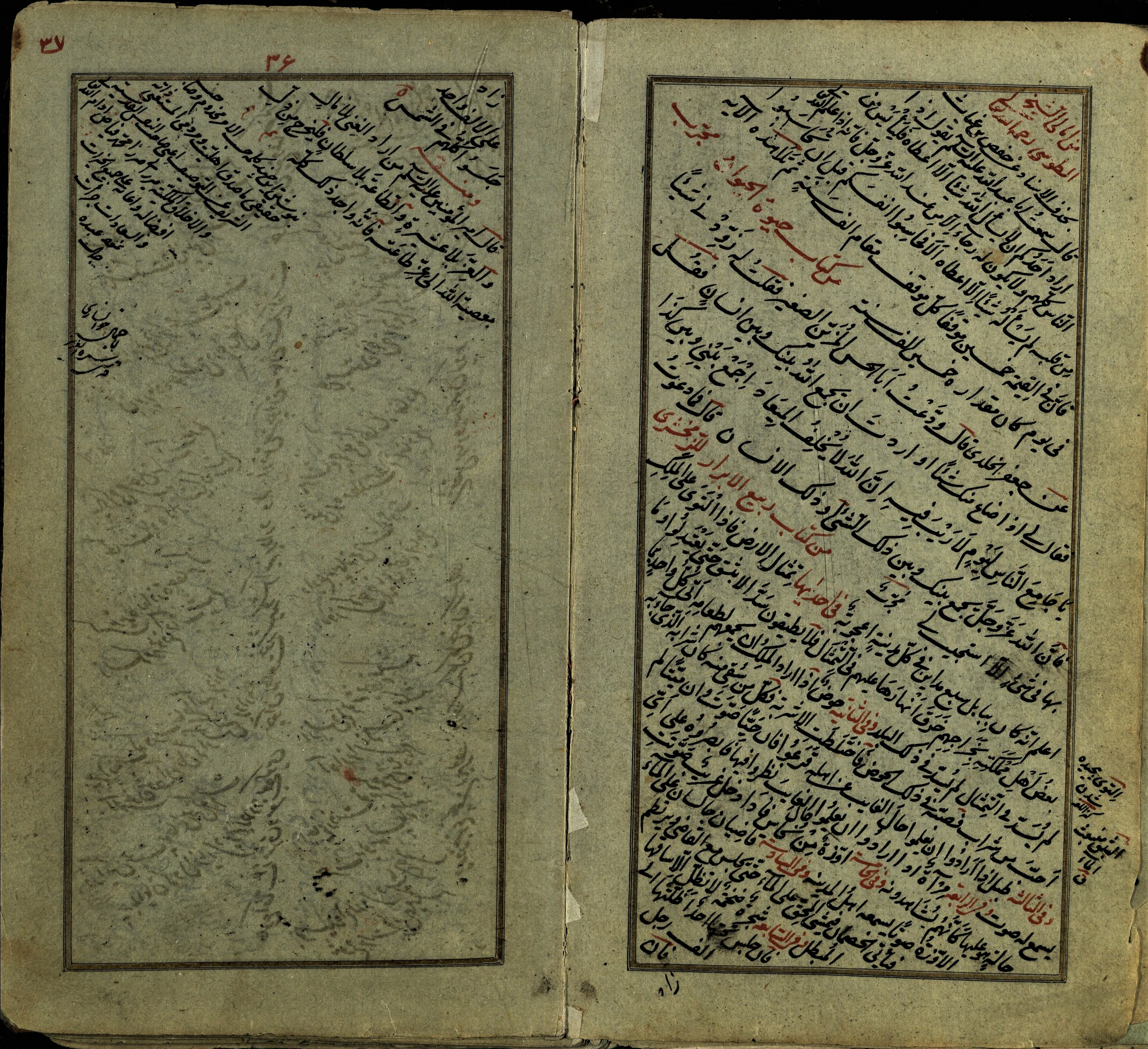 Author: Agha Jamal Khansari A note from Agha Jamal Khansari in literary collection compiled by Mirza Muhammad Fayaz Sabzevari Central Library and Documentation Center of the University of Tehran Number: 9707, 35 (back) and 36 (front)